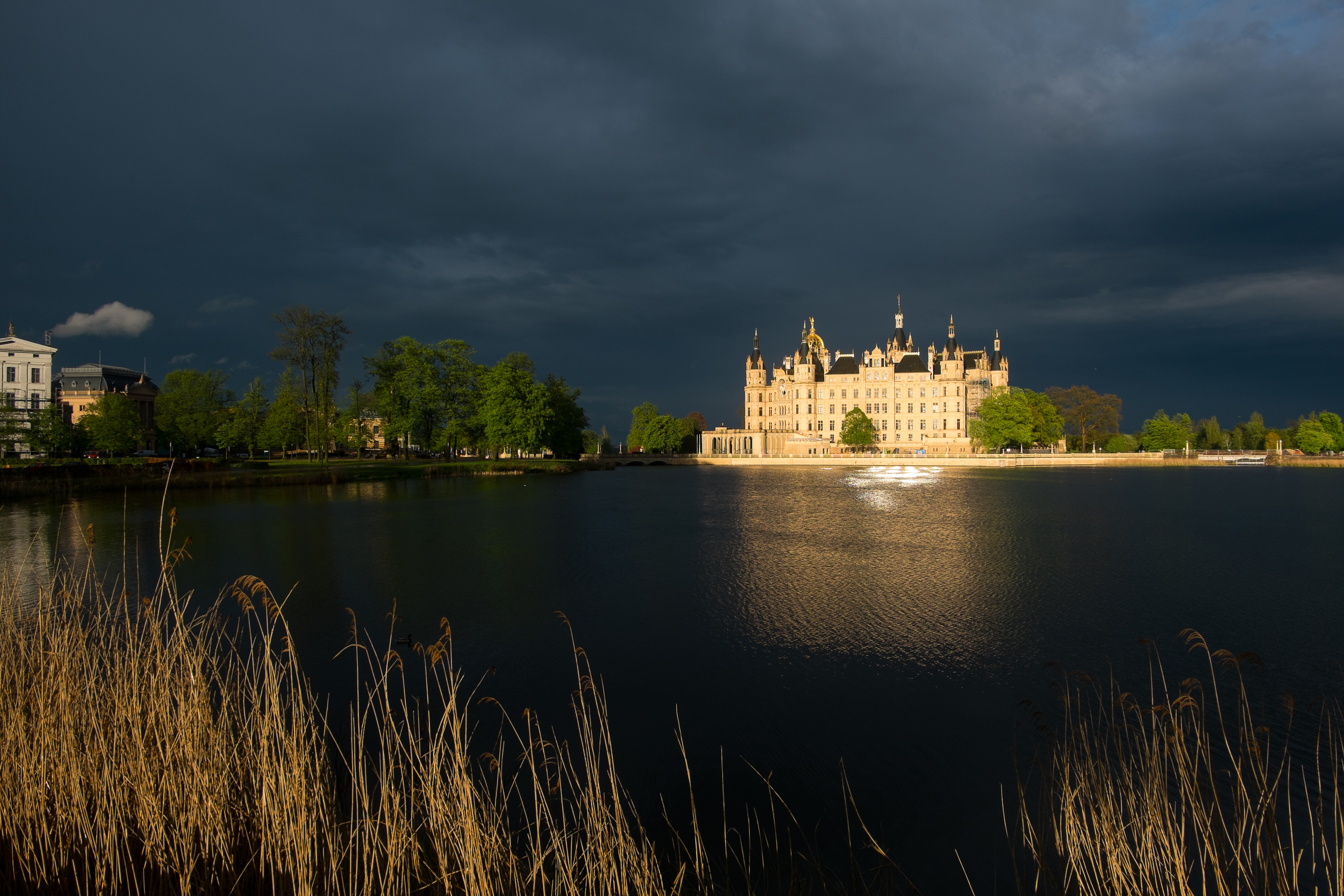 Schwerin Palace, Mecklenburg-Vorpommern, Germany.